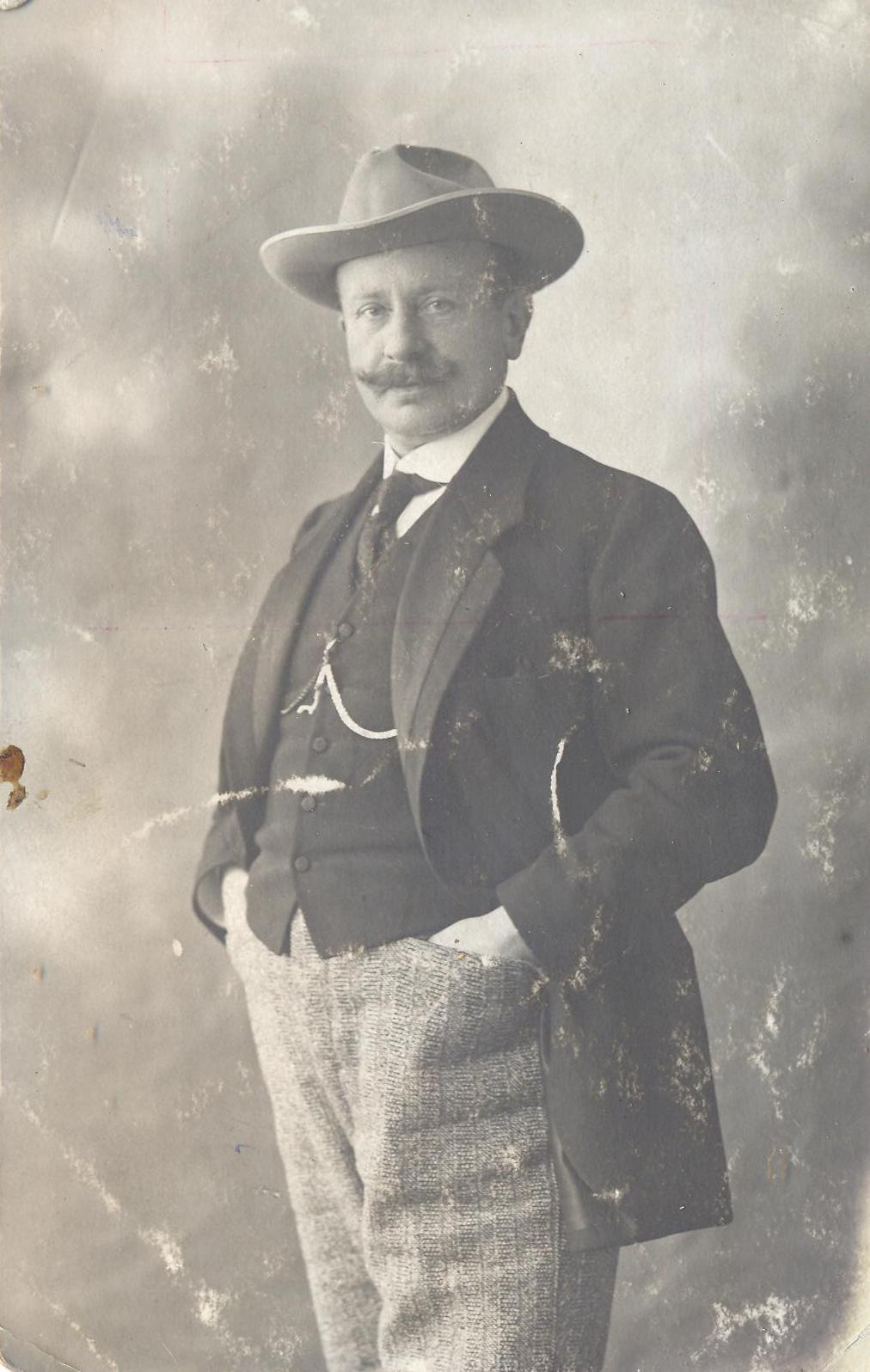 Bulgarian actor Georgy Stoyanov (1869-1954).